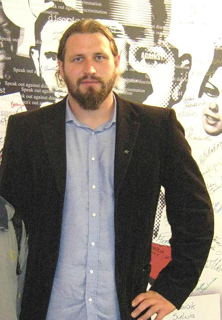 Polish Olympic gold medalist shot putter Tomasz Majewski.